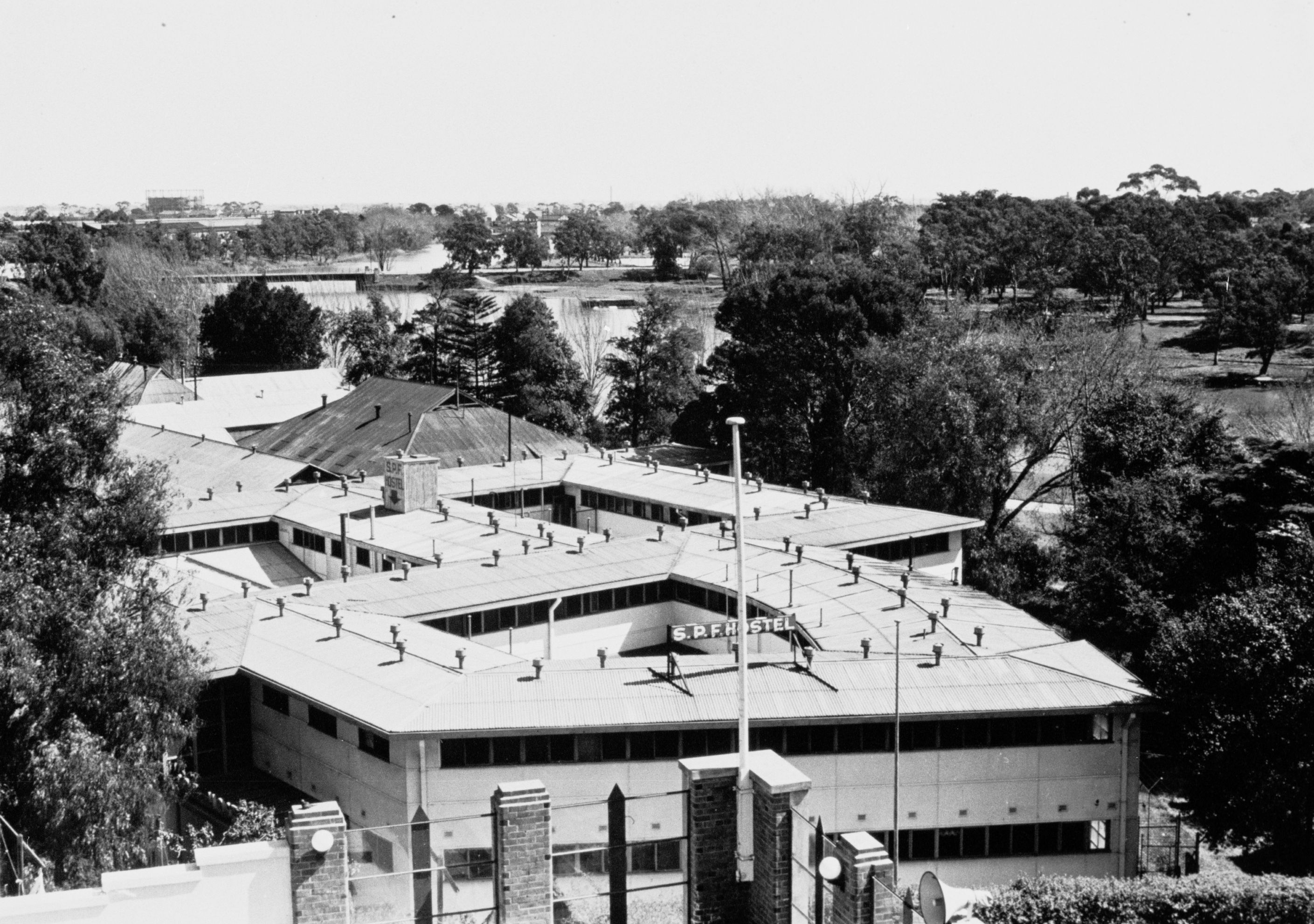 The Elder park migrant hostel (formerly the Schools Patriotic Fund Hostel) was designed to accommodate migrants coming into South Australia. Its central location in Elder Park, where the Festival Centre now sits, became a hub to those needing temporary accommodation. The building contained dormitories, a lounge room and writing room, as well as communal bathrooms, a dining room and laundry. At its inception in 1947, the Hostel hosted British migrants, Maltese migrants, trades people and war orphans who had come to experience a new life in Australia.